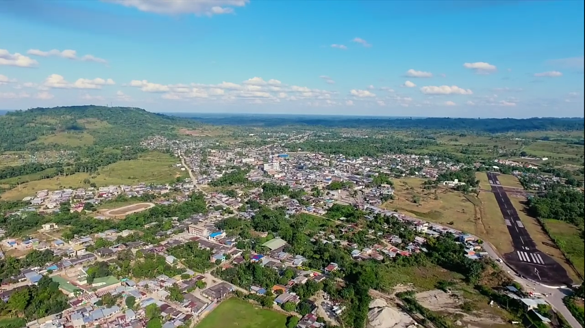 Orito